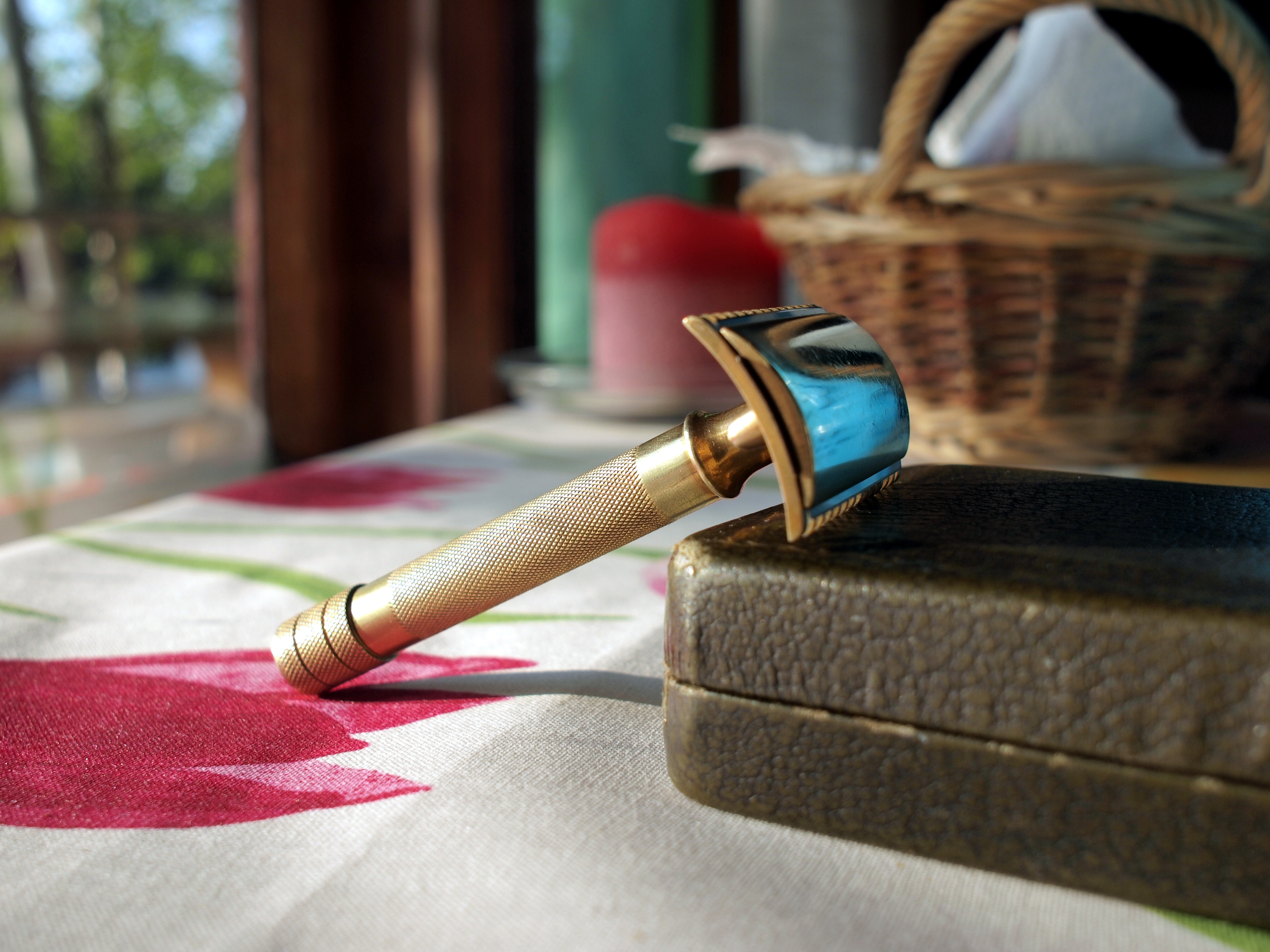 The standard Gillette safety razor set featuring the case. Made between 1921 and 1928.